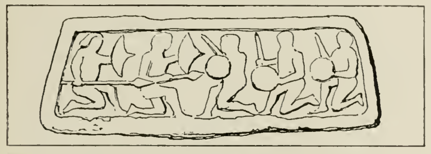 Figure of a (supposed) battle scene, sculptured on a panel of a stone cross in Kells, county Meath. The original, about four feet in length, evidently depicts a conflict between warriors of different tribes or different nationalities; the one armed with long handled spears, and protected with circular shields, from the centre of which project pointed bosses of considerable size. The opposing party also have shields, without a boss, and they are armed with short swords, of a kind often found in our lake-dwellings, and of a style supposed to have been adopted on the first introduction of iron as the regular material for the formation of weapons of warfare. The suggestion may be hazarded that the spearmen are probably Northmen, their opponents being the Irish.[1]